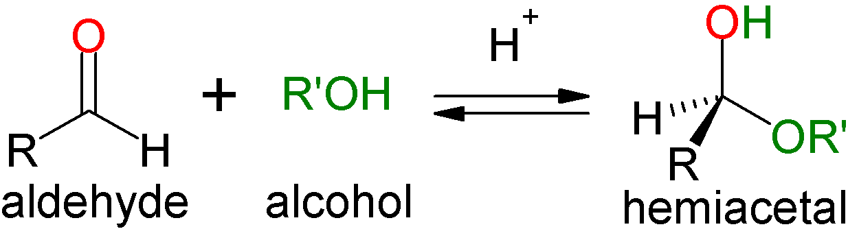 Hemiacetal_formation